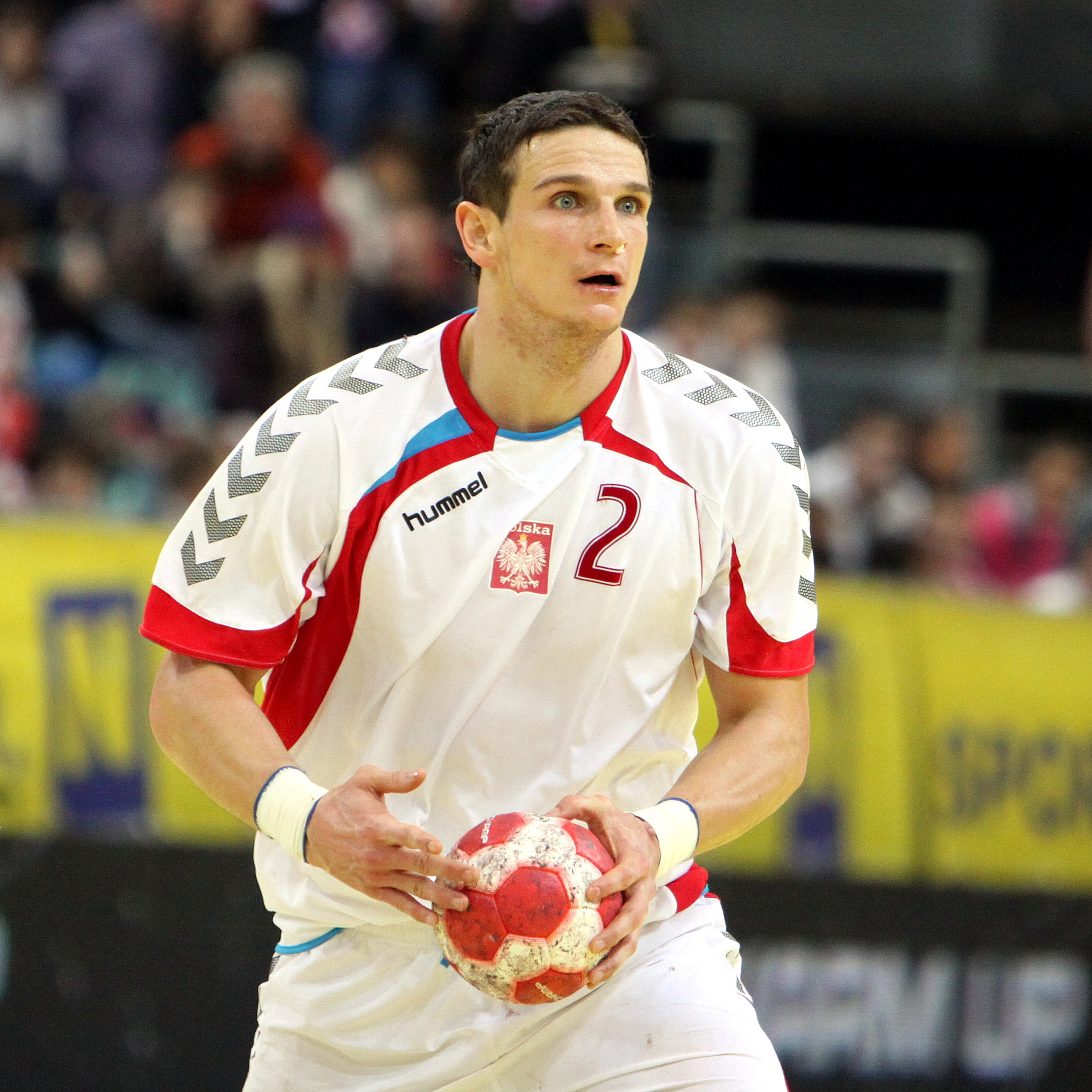 Bartłomiej Jaszka (Füchse Berlin), Poland national handball team